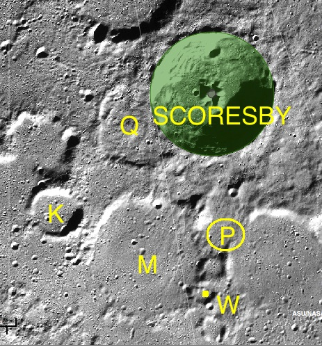 Image from IAU site used for the presentation.